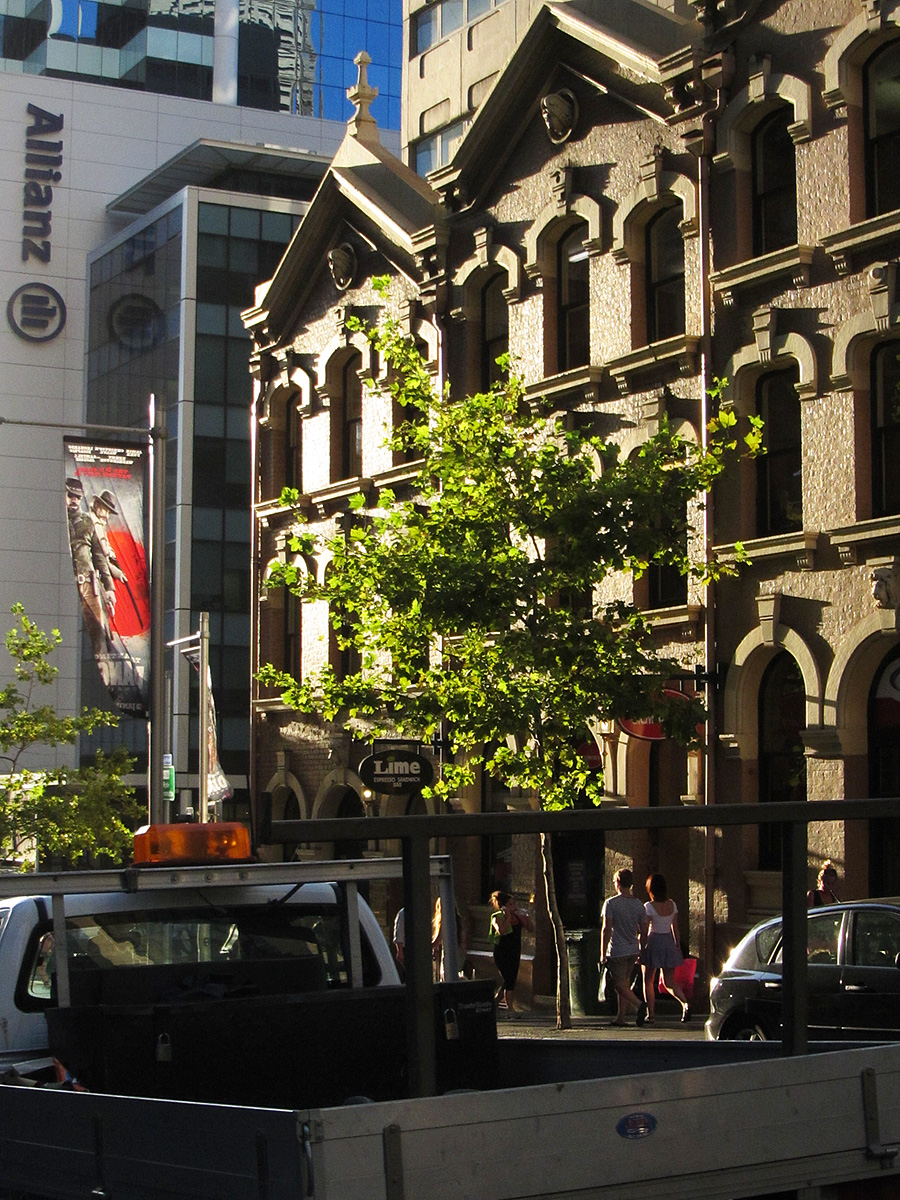 Market Street, Sydney building